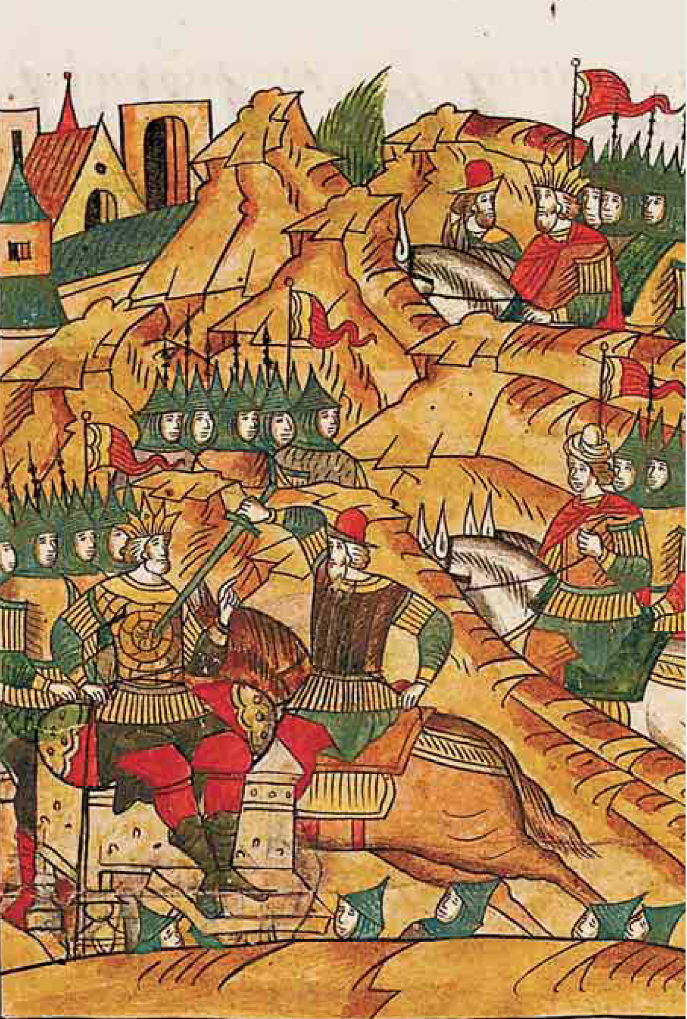 Illustrated Chronicle of Ivan the Terrible, book 11, Milos Obilic kills Murad